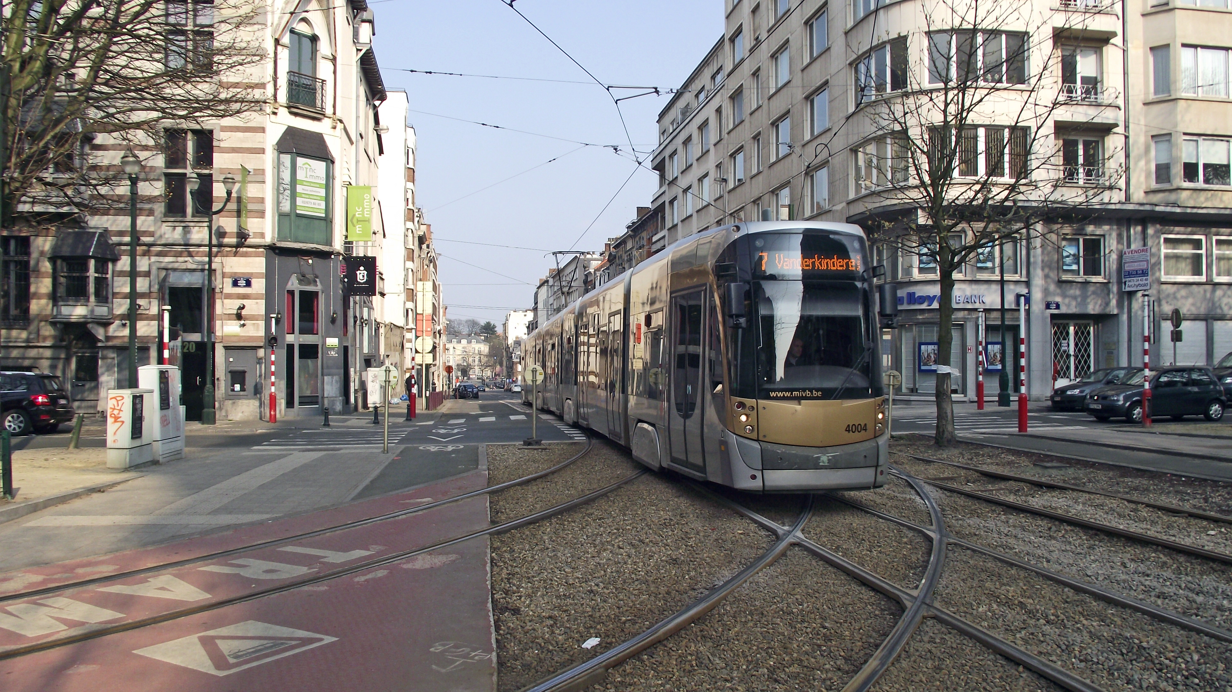 The new chrono tramline 7 replacing the 23 tramline at Legrand. Tramline 94 turns to the left.